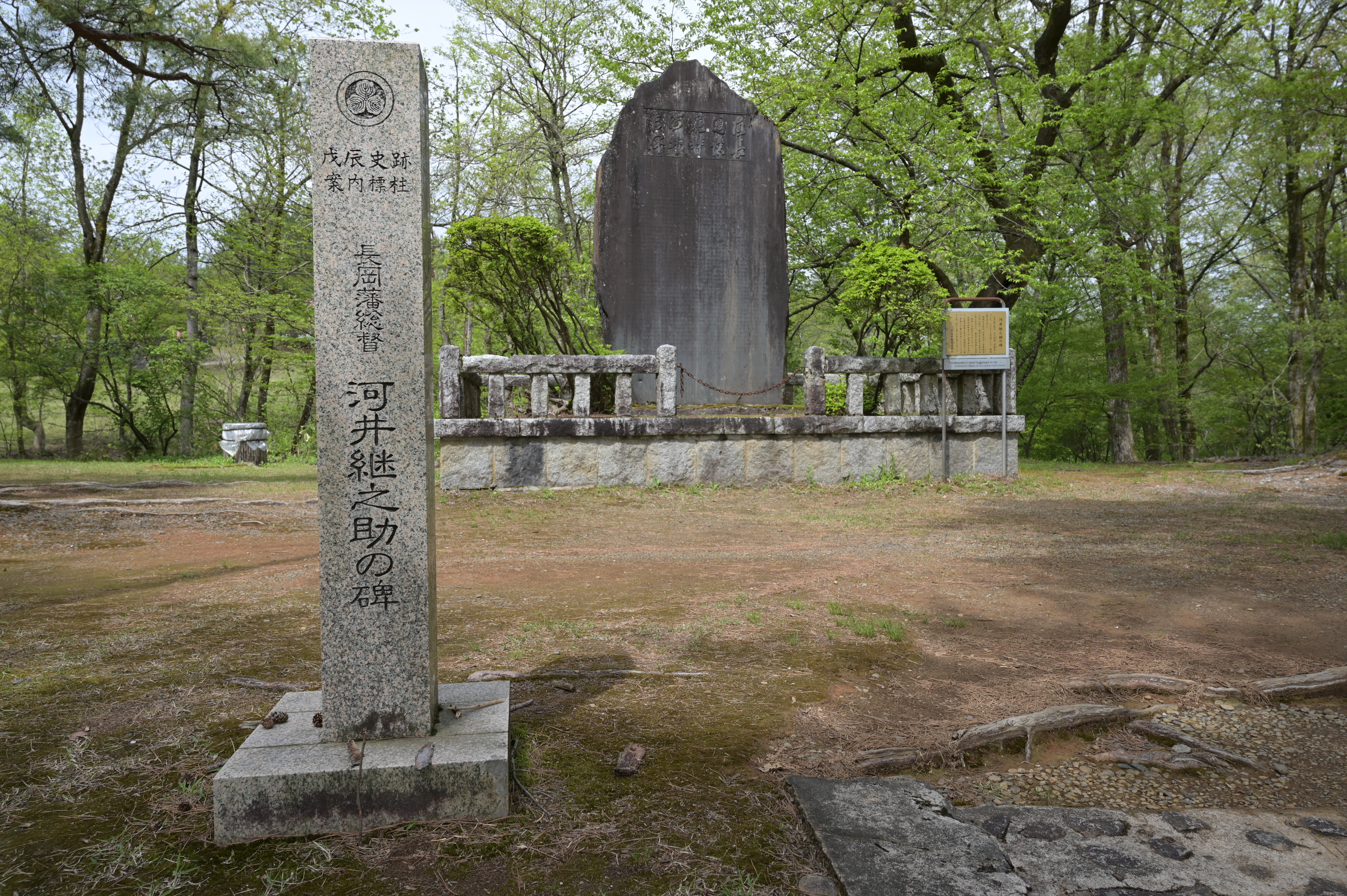 Monument of Kawai Tsuginosuke at Yukyuzan Park, Nagaoka, Niigata Prefecture, Japan